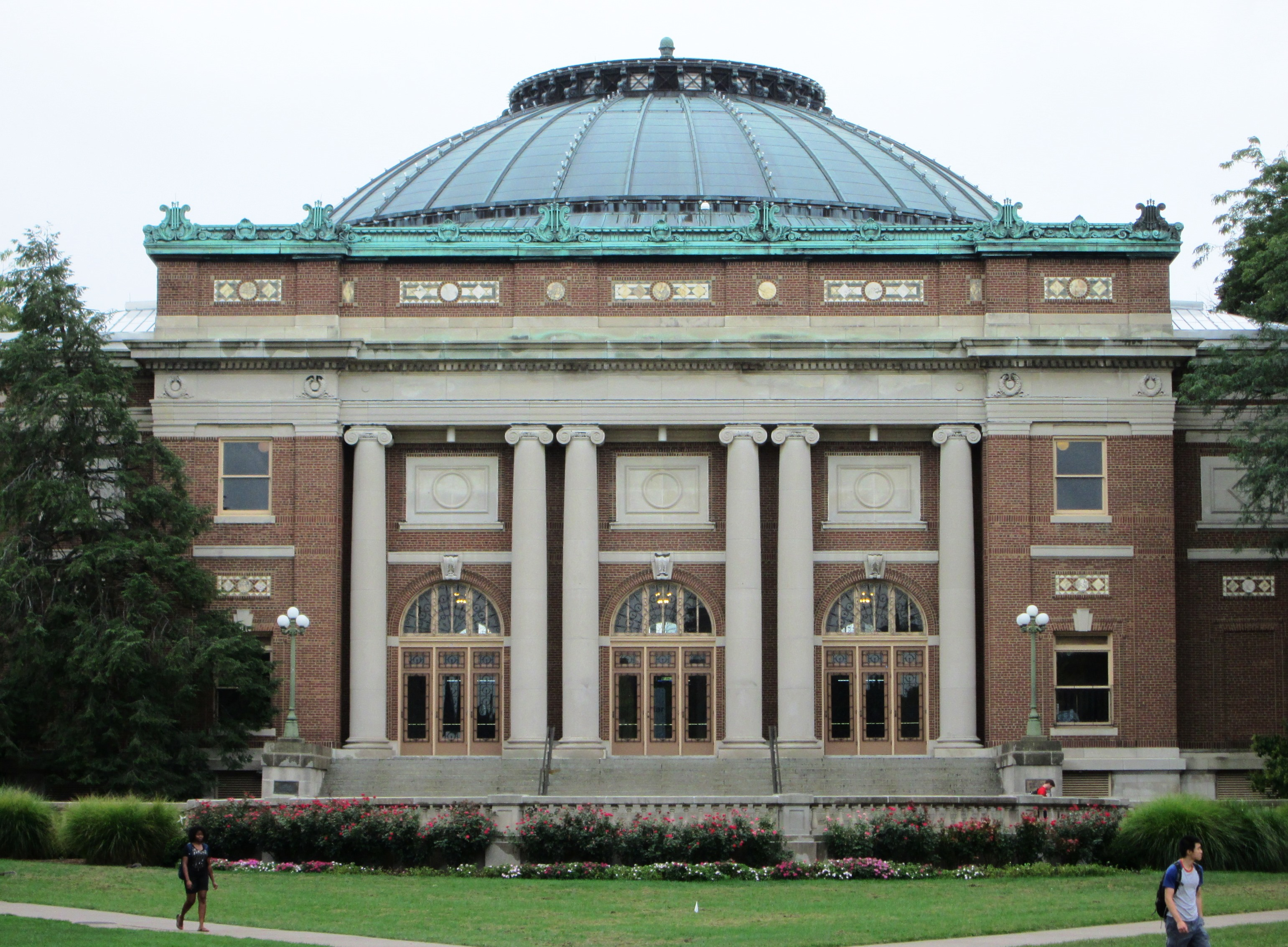 The Foellinger Auditorium, located at 709 S. Mathews Avenue in Urbana, Illinois on the campus of the University of Illinois at Urbana-Champaign, is a concert hall and the university's largest lecture hall. It is the southernmost building on the main quad. The building was completed in 1907 and was designed by Clarence H. Blackall, a noted theatre designer, in the Beaux-Arts style. The building is essentially a circle with a 120-foot diameter covering 17,000 square feet, with a large vestibule on the north side, and 396 lights in its copper dome. Originally dedicated to the composer Edward MacDowell, the building was rededicated on April 26, 1985 in honor of Helene Foellinger, whose gift to the university enabled the facility to undergo a major renovation.